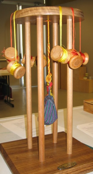 Source: I took the picture. I release it to the public domain.